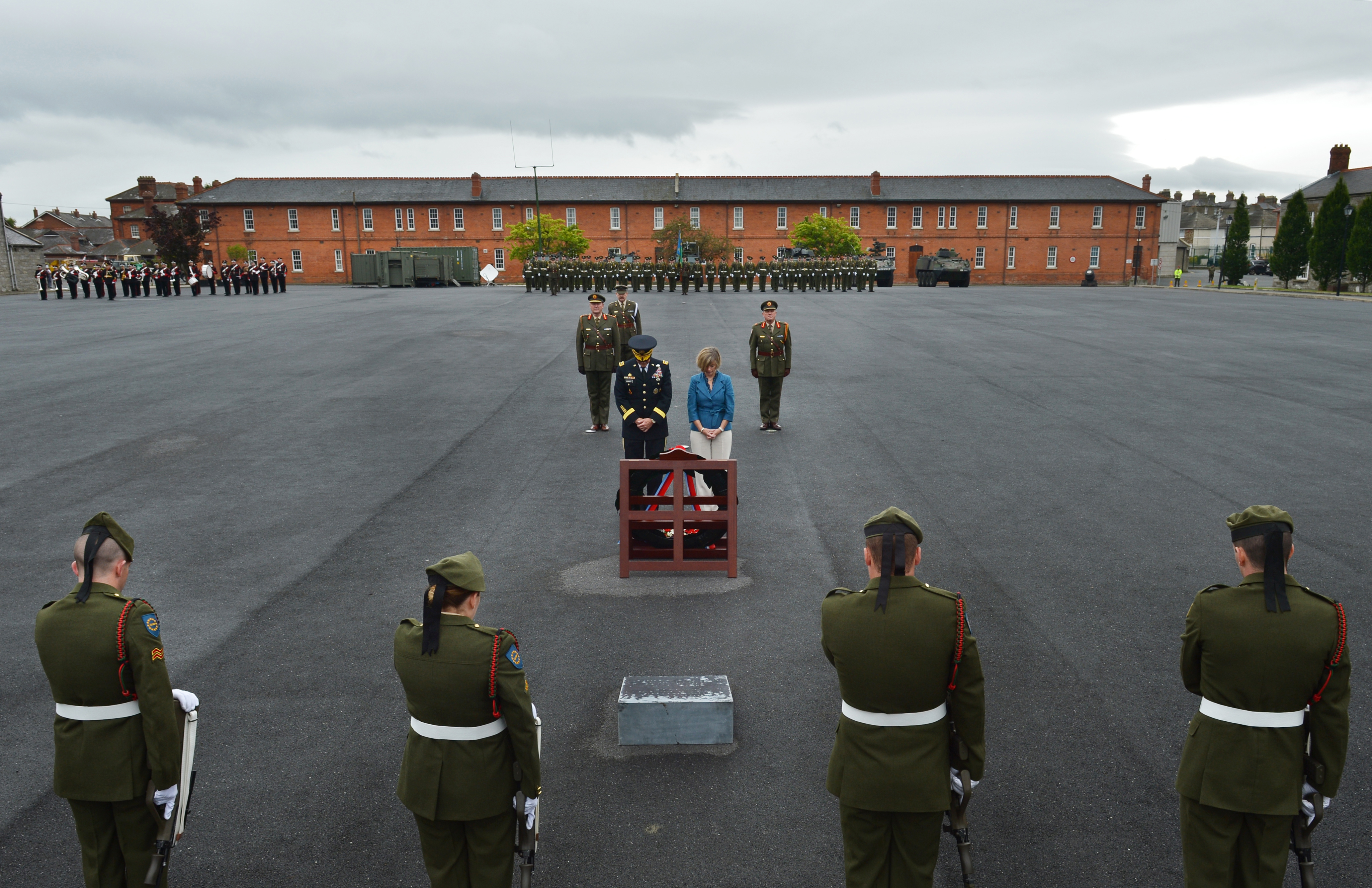 U.S. Army Gen. Martin E. Dempsey, chairman of the Joint Chiefs of Staff, and his wife, Deanie, bow their heads after laying a wreath at Brugha Barracks in Dublin, Aug. 31, 2012.